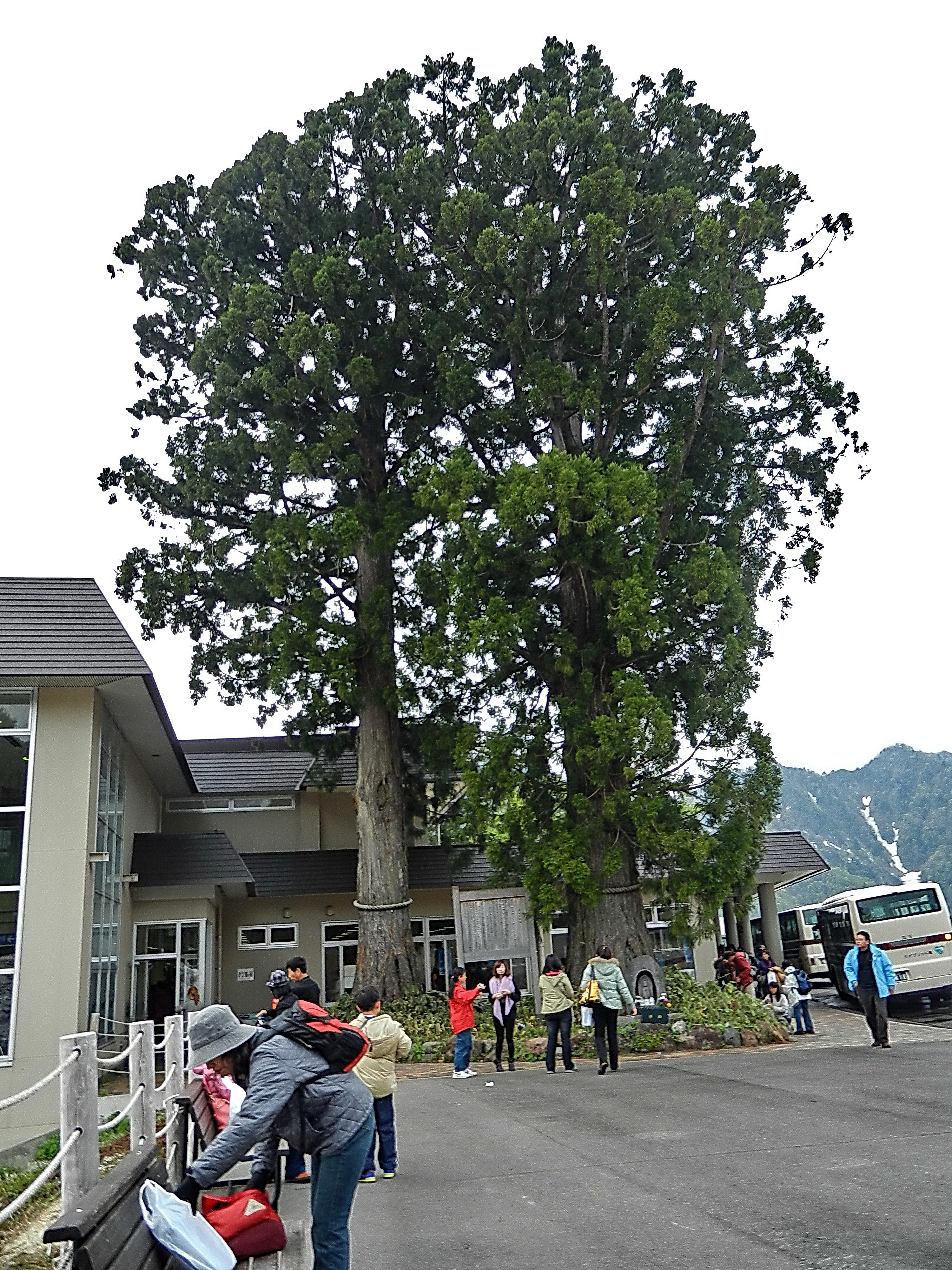 Bijosugi (Cryptomeria japonica tree) at Bijodaira Station.